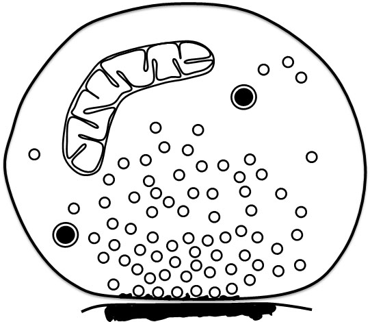 Schematic of isolated synaptosome with synaptic vesicles, densecore vesicles, a mitochondrion, and a piece of postsynaptic membrane attached to the presynaptic active zone